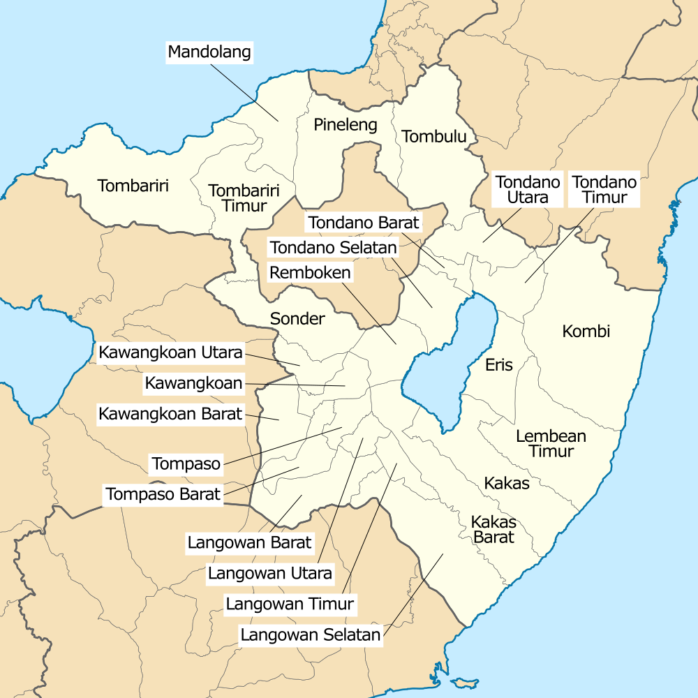 Map of sub-districts in Minahasa Regency, North Sulawesi, Indonesia. Map data from tanahair.indonesia.go.id and kpu-sulutprov.go.id.